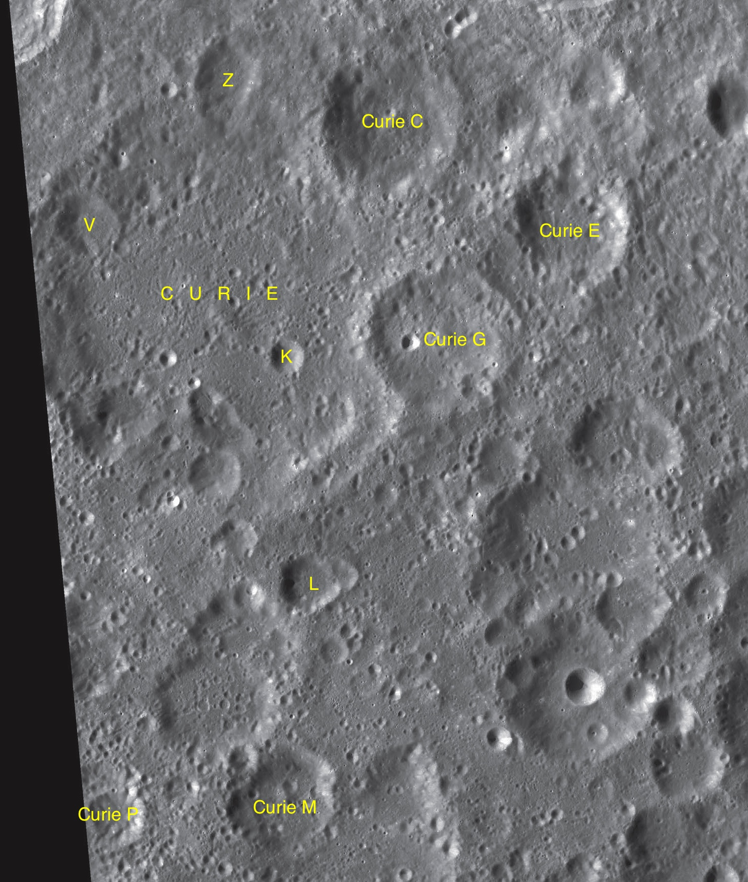 Part of the chart LAC-100 used for the presentation